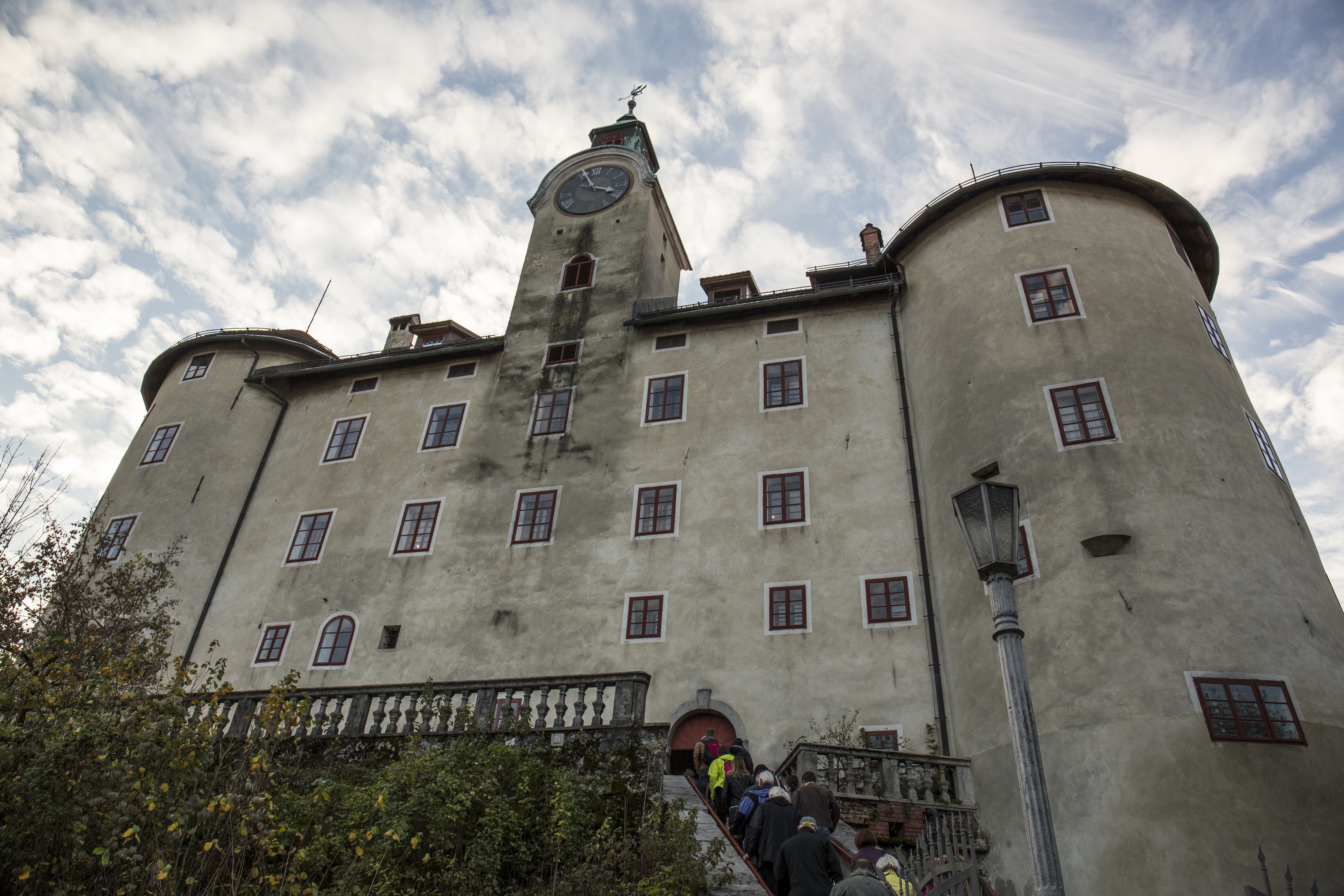 Front of the Gewerkenegg Castle, Idrija, Slovenia.